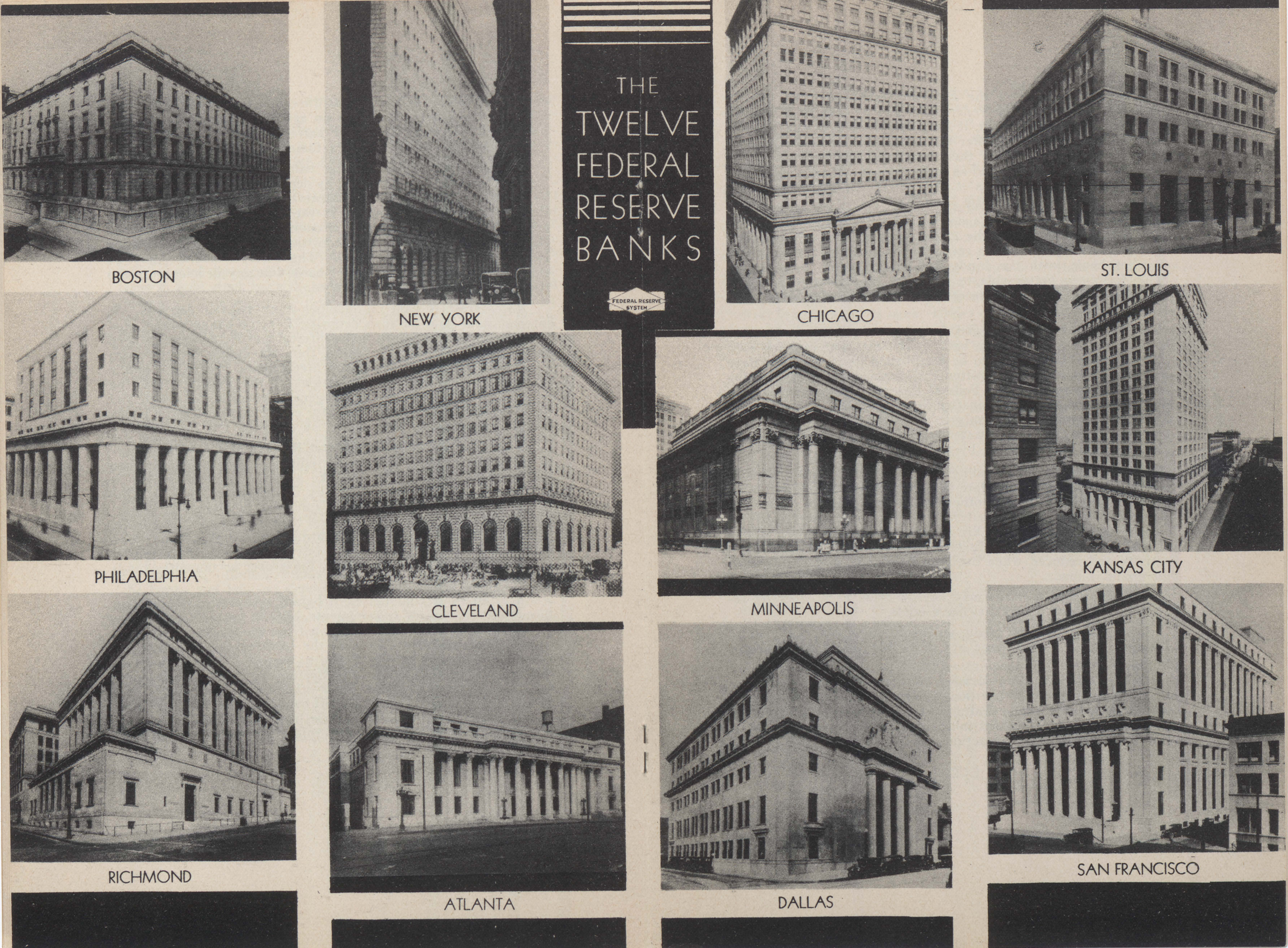 Twelve Reserve Banks buildings from 1936